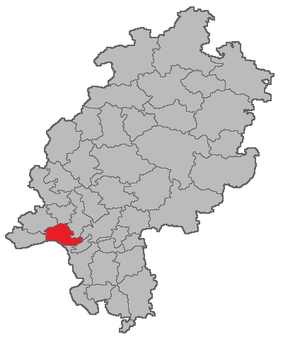 Map of the district court Wiesbaden in Hesse